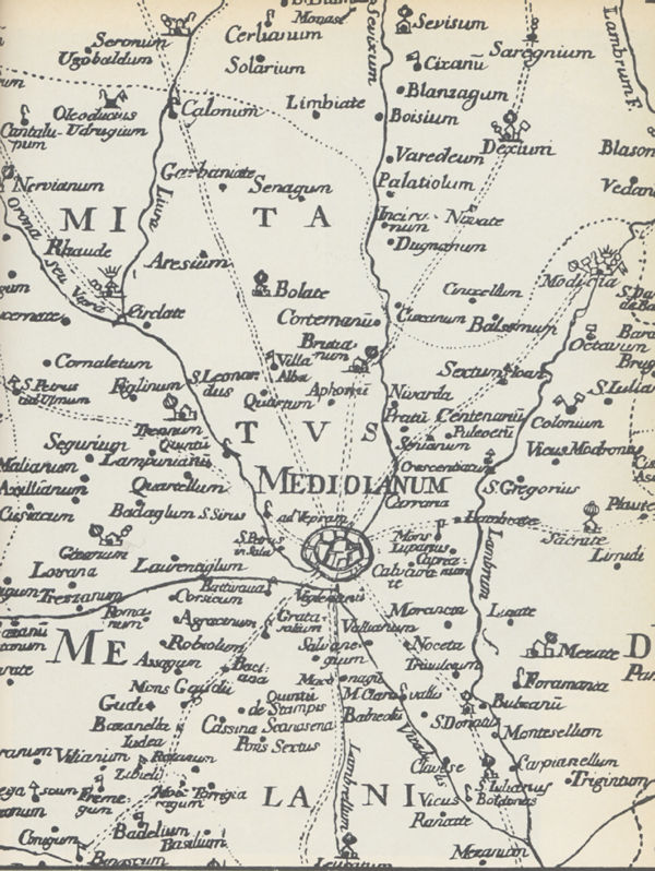 Map of Milan area in (about) 1790